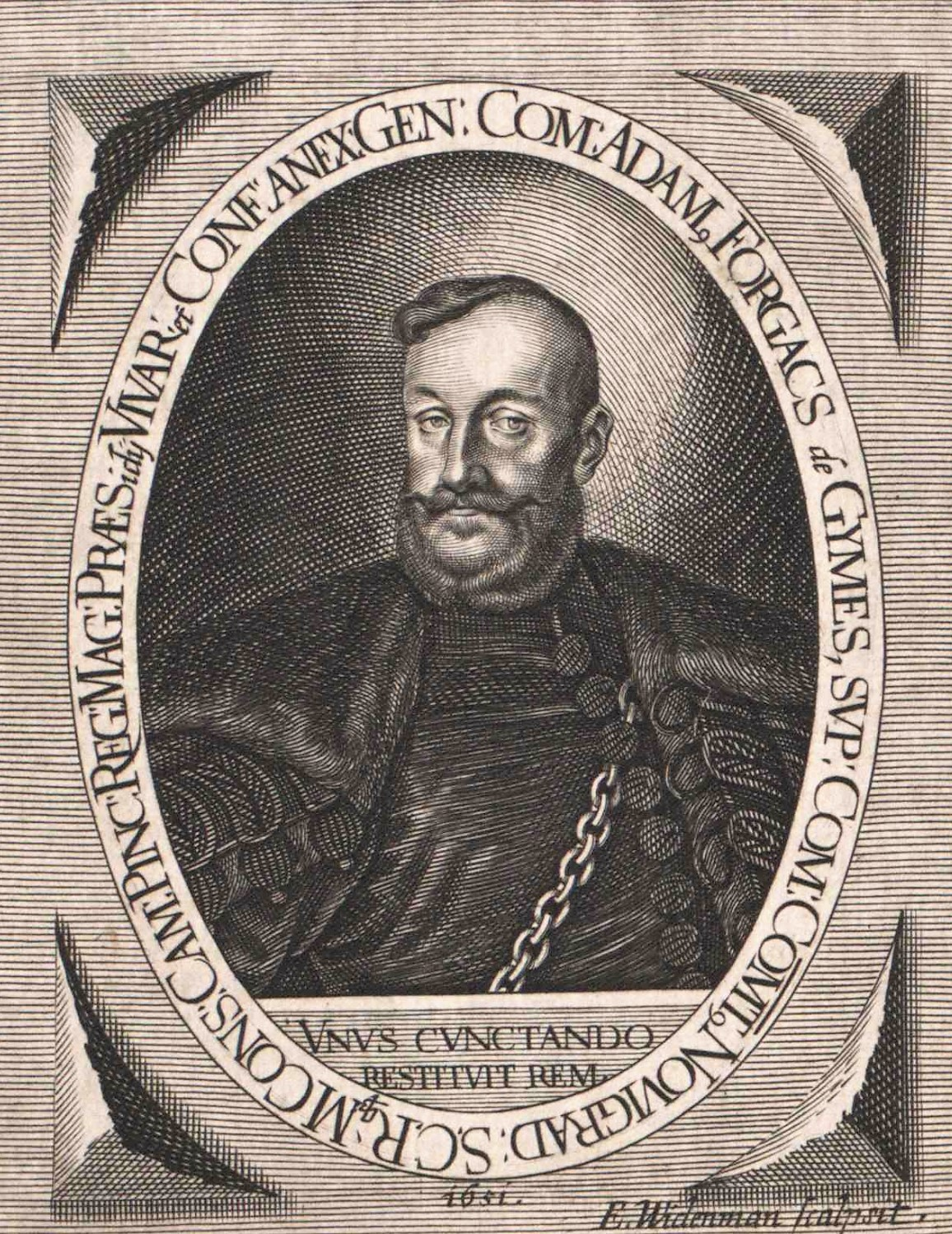 Portrait of Ádám Forgách